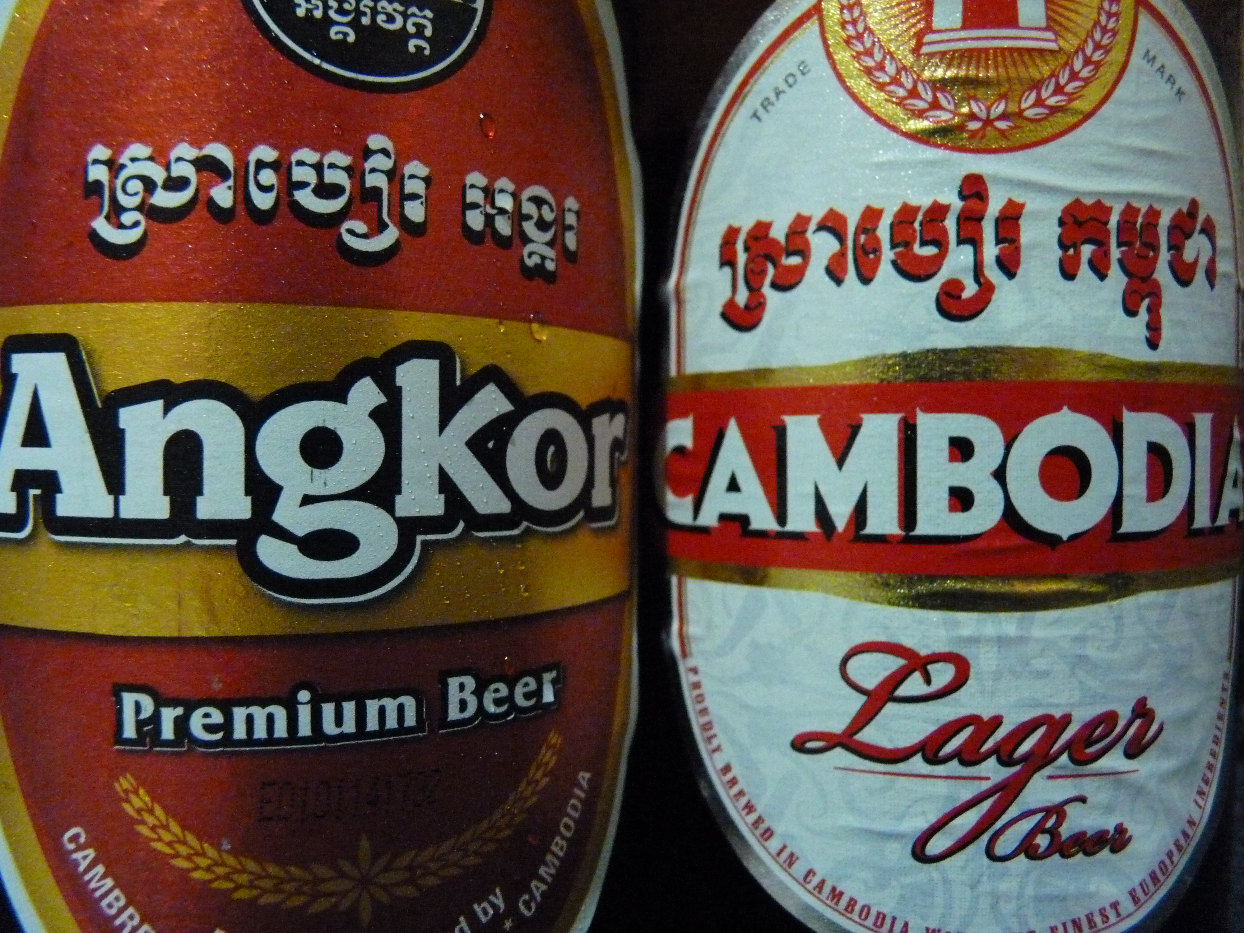 Angkor and Cambodia beer